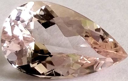 Faceted Morganite, 2.01ct, Brazil